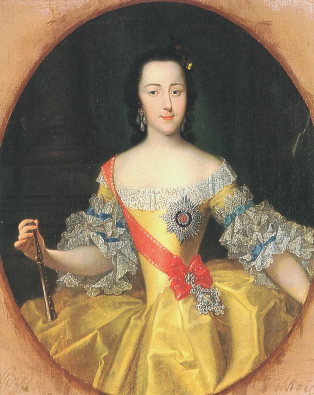 Portrait by Georg Christoph Grooth of the Grand Duchess Ekaterina Alexeevna (later Empress Catherine II of Russia/Catherine the Great) painted circa 1745, St. Petersburg, Russia.